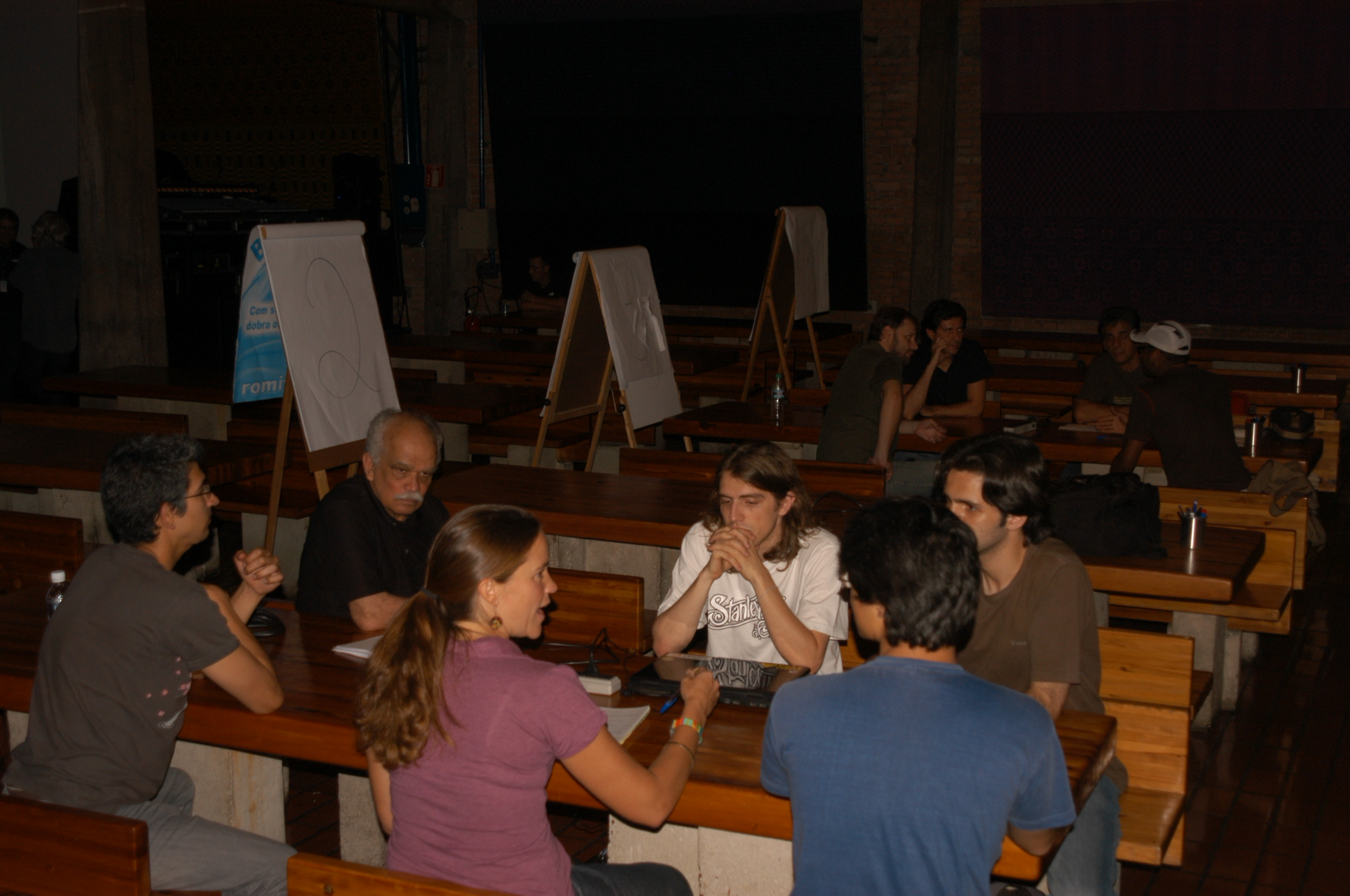 worhkshop at sesc pompeia, sao paulo, brasil